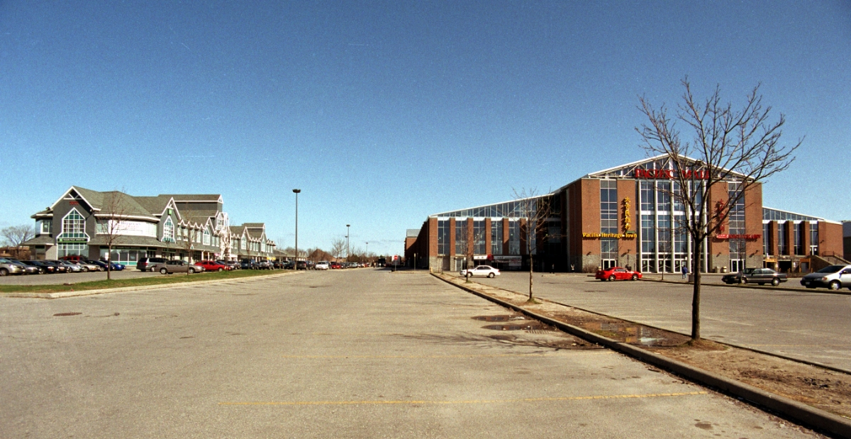 Pacific Mall, Markham, Ontario